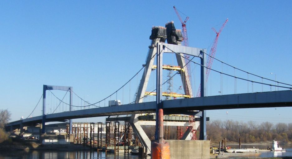 Paseo Bridge and replaceent Christopher Bond Bridge